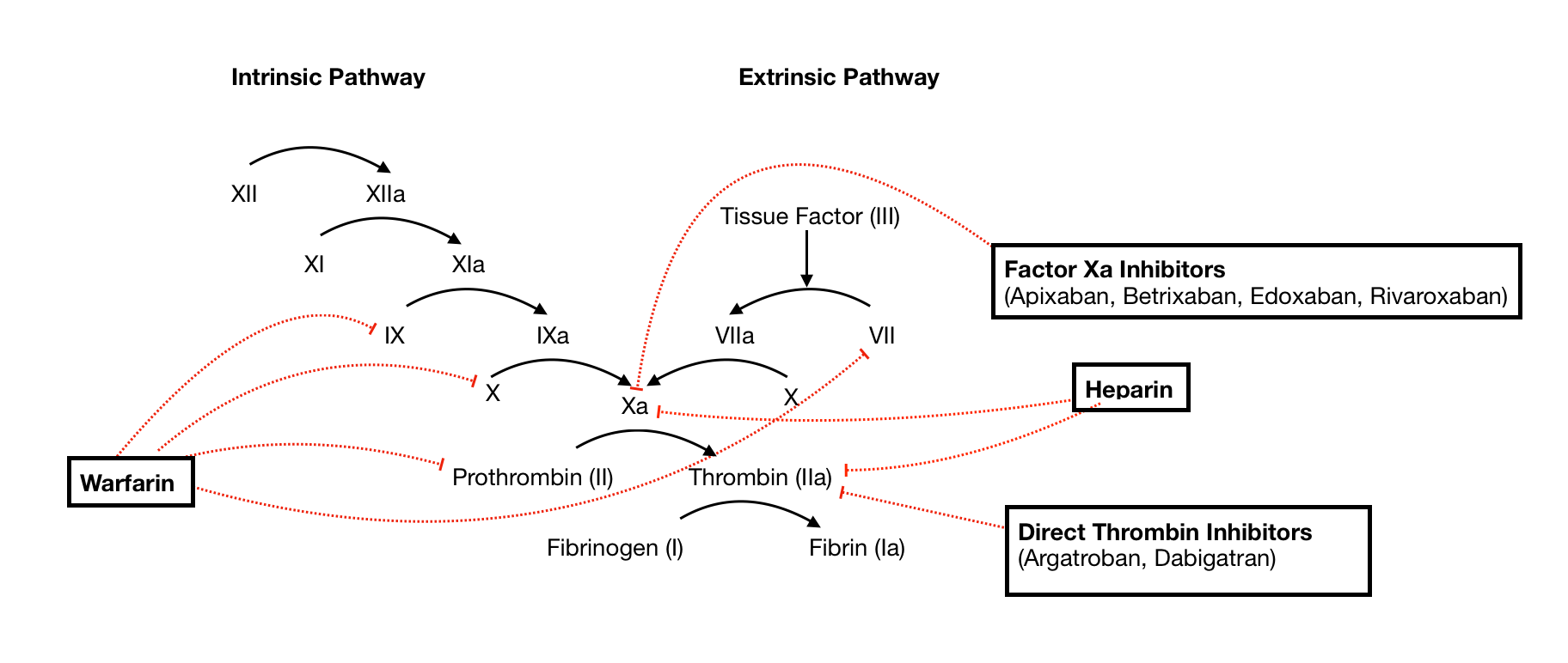 Major classes of anticoagulants include warfarin, heparin, Direct thrombin inhibitors, and factors Xa inhibitors. This figure illustrates the sites within the coagulation cascade at which these major classes of anticoagulant exerts its effects.